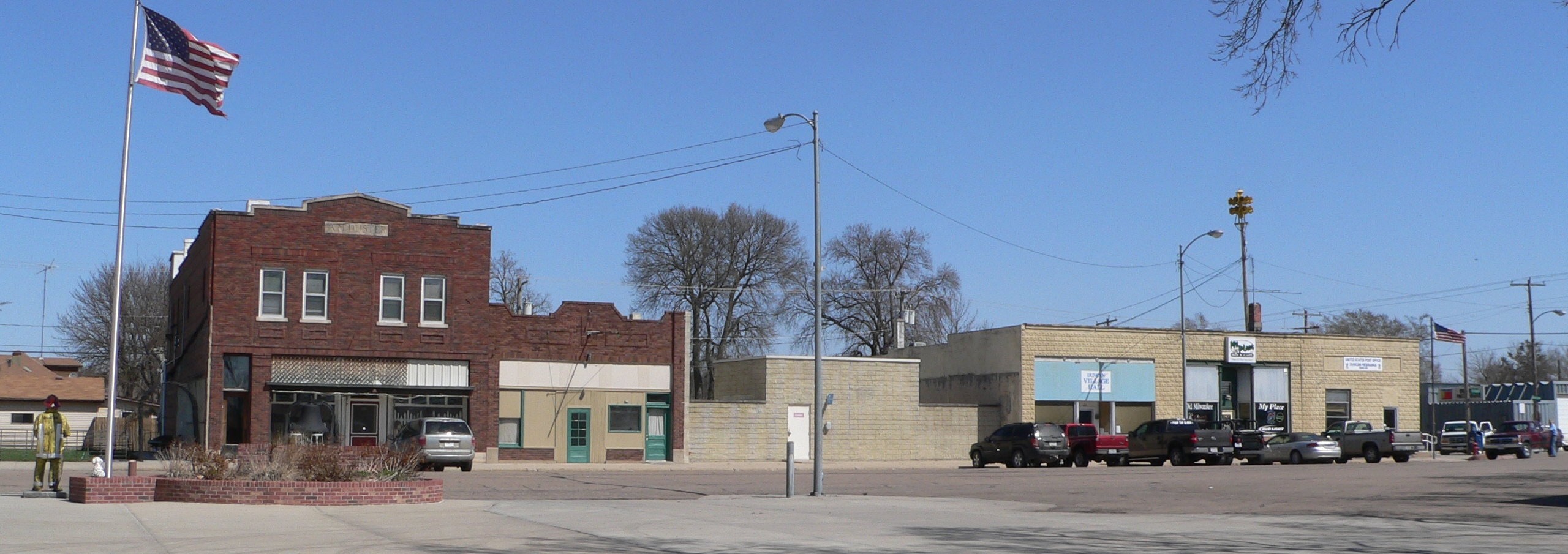 Downtown Duncan, Nebraska: north side of 8th Street.